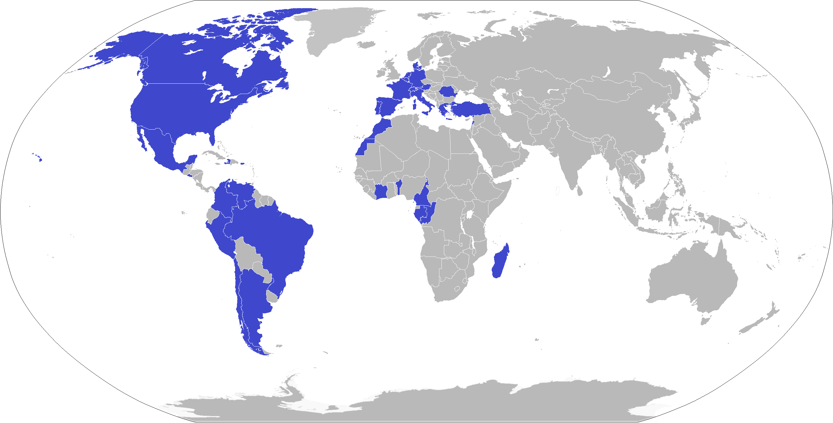 Map about the presence of the organization CLIPSAS in the world. The countries where CLIPSAS is present are painted in blue color, the other countries are painted in grey.